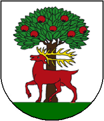 Coat of arms of Walzenhausen, Canton of Appenzell Ausserrhoden, SwitzerlandEsperanto: Blazono de Walzenhausen, Apencelo Ekstera, Svislando